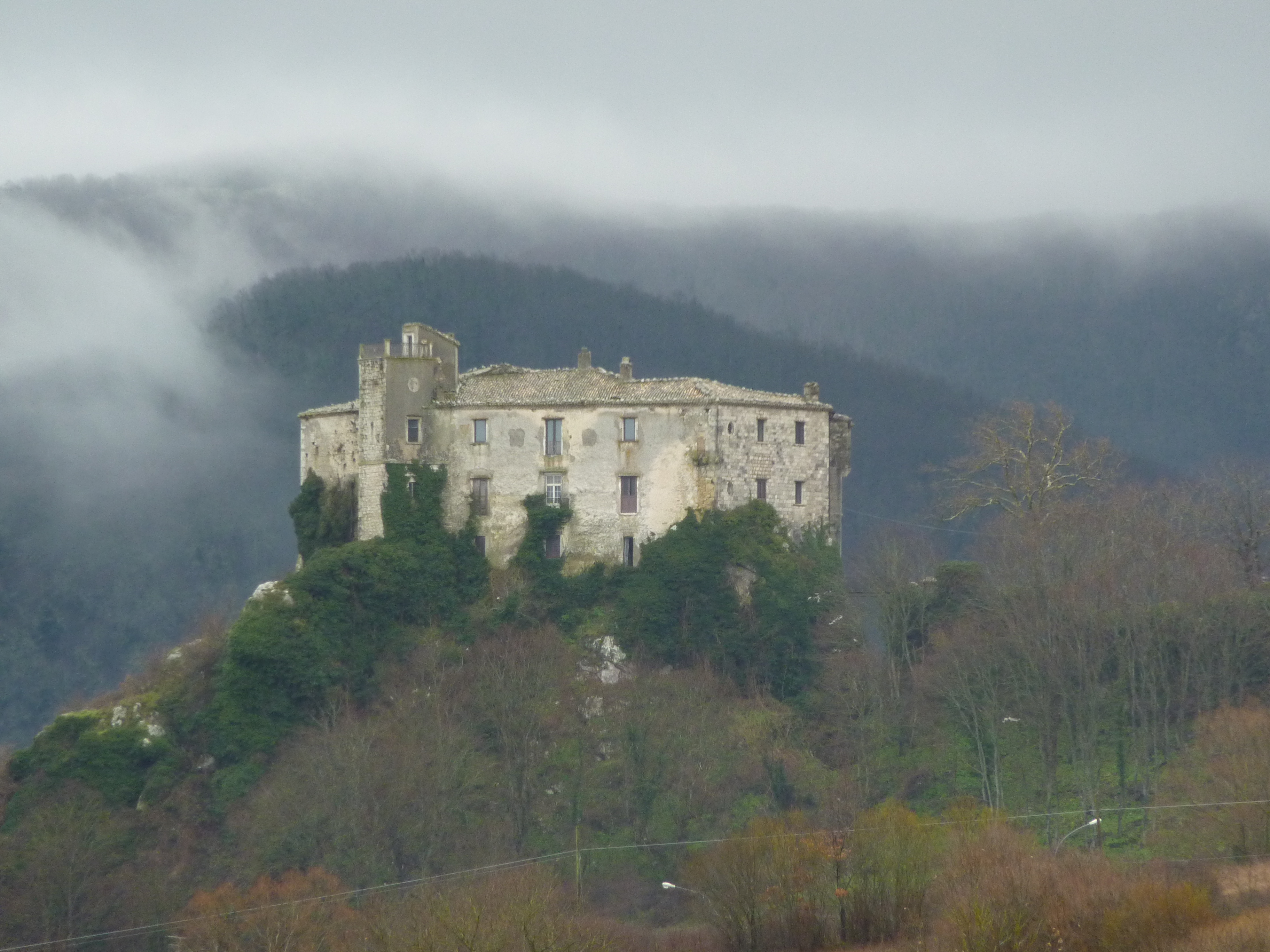 Pescolanciano: Castle